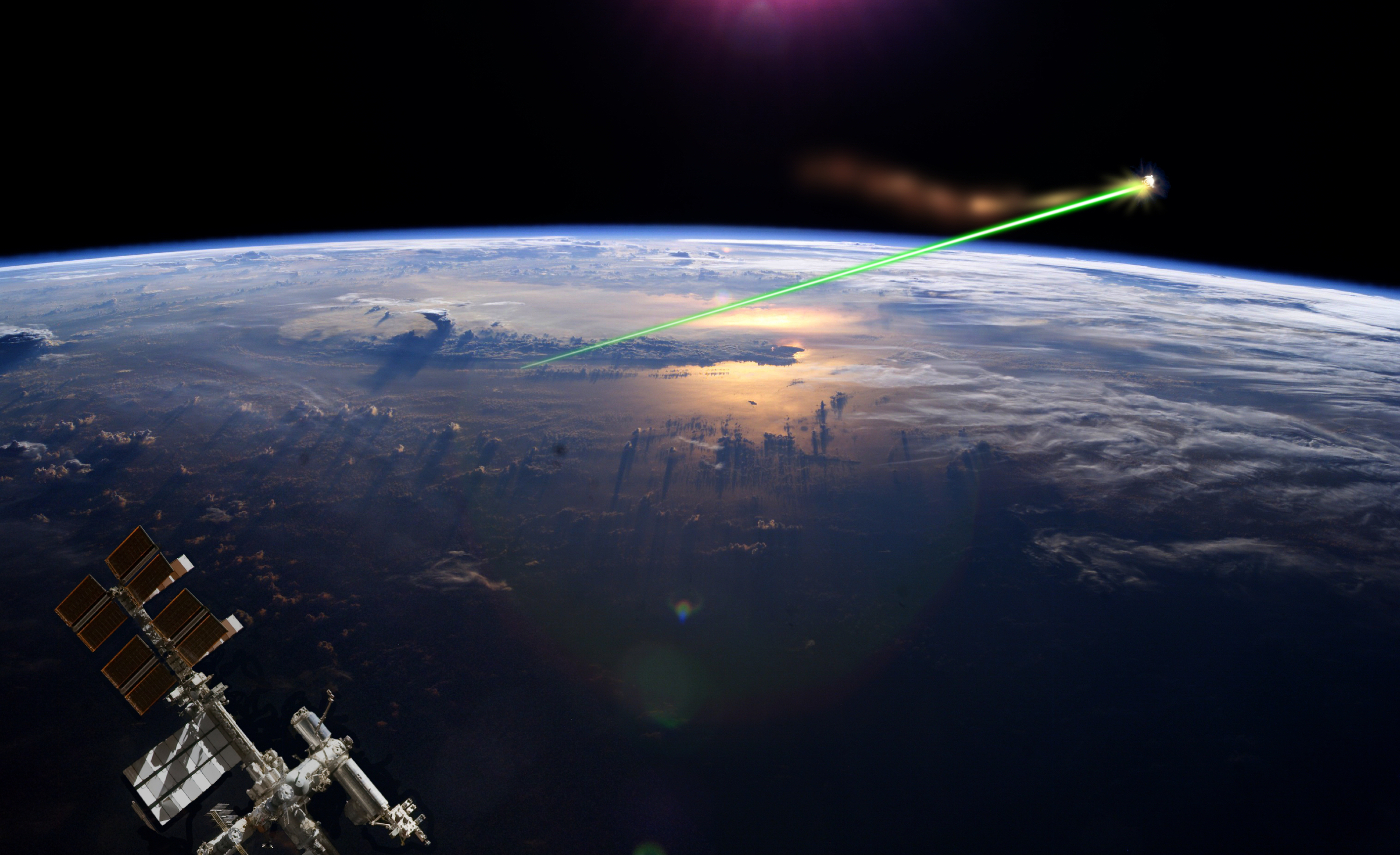 Artistic interpretation of the Laser broom.